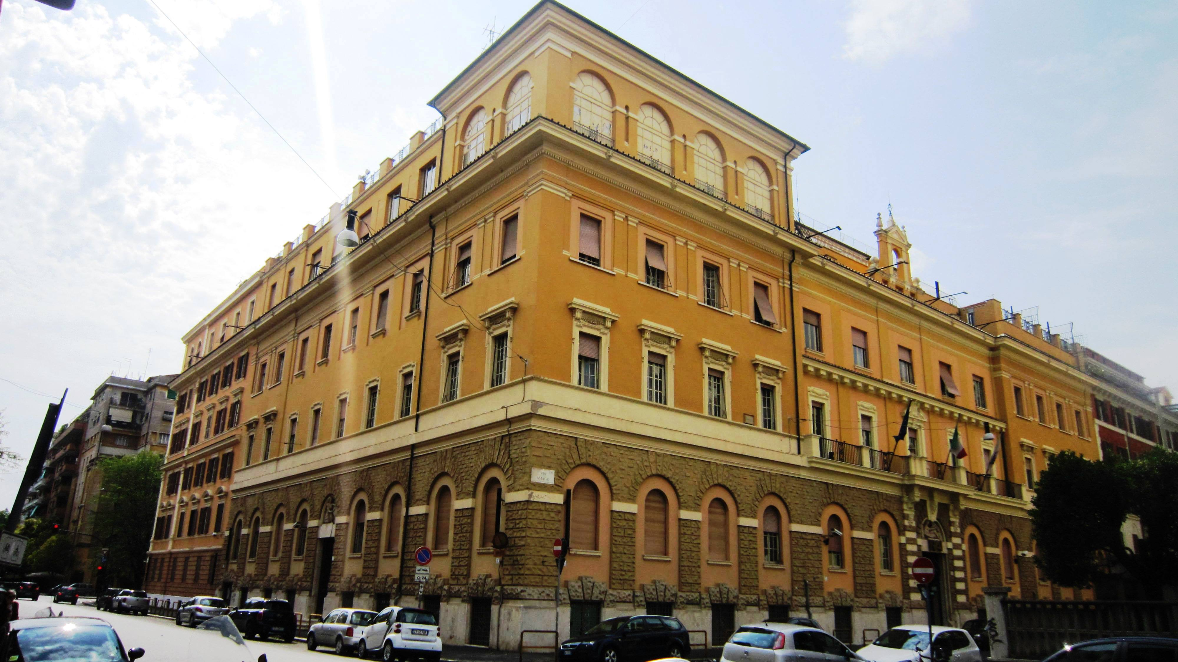 Rai Radio Via Asiago a Roma